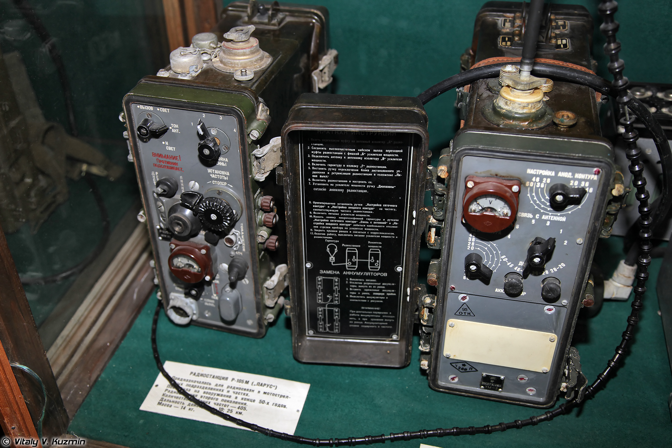 R-105M radio and UM-2 amplifier